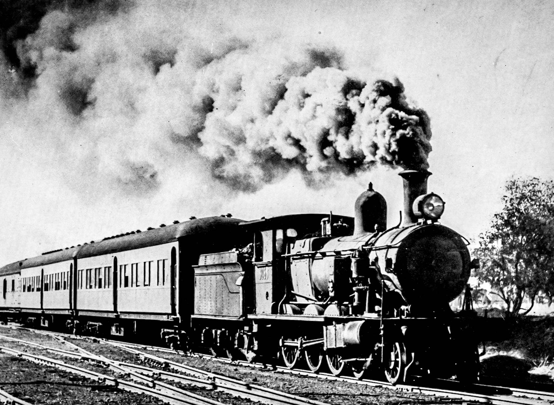 NSWGR Class C30T Locomotive